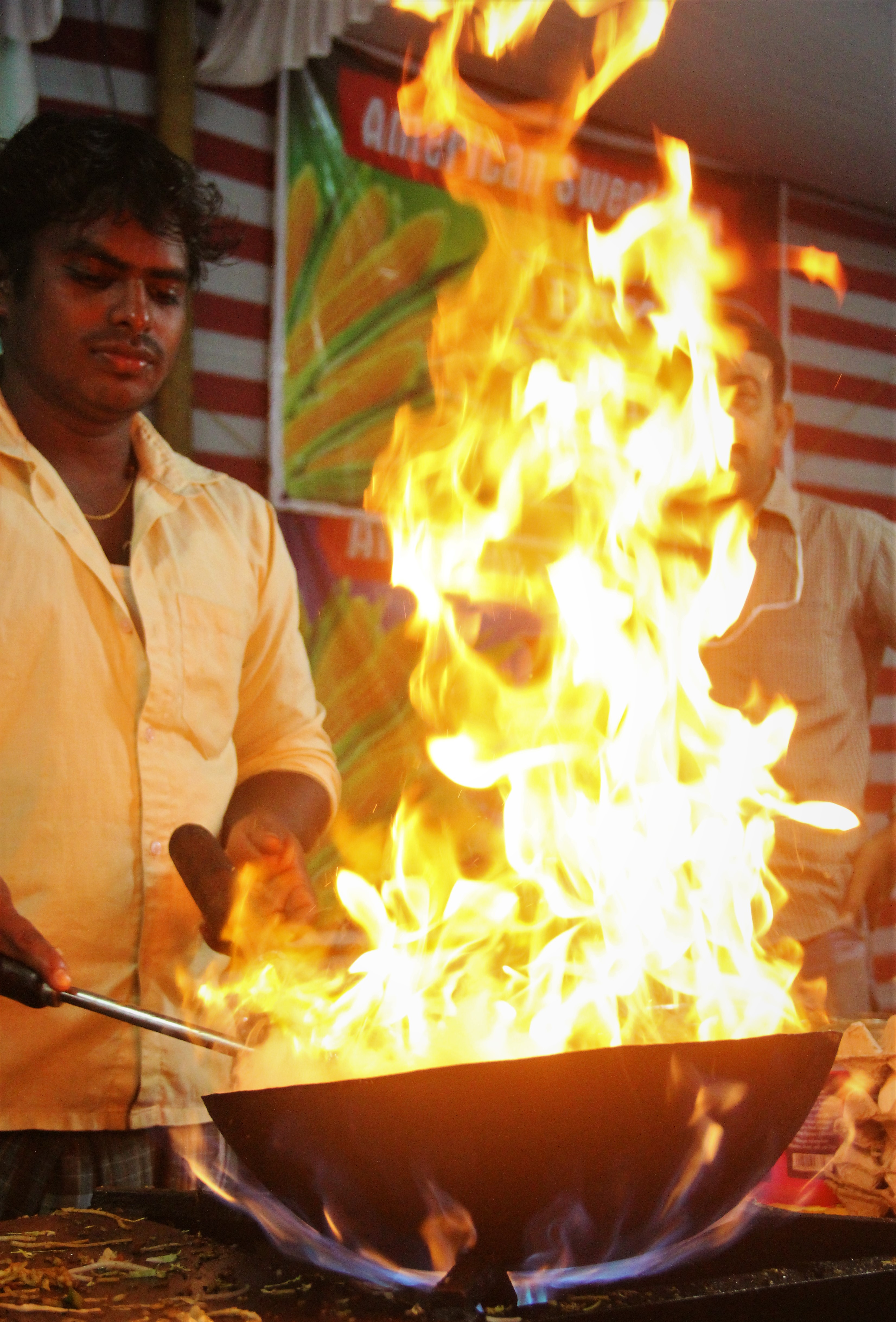 A street food vendor using a chinese wok for stir frying in Trivandrum, Kerala, India.